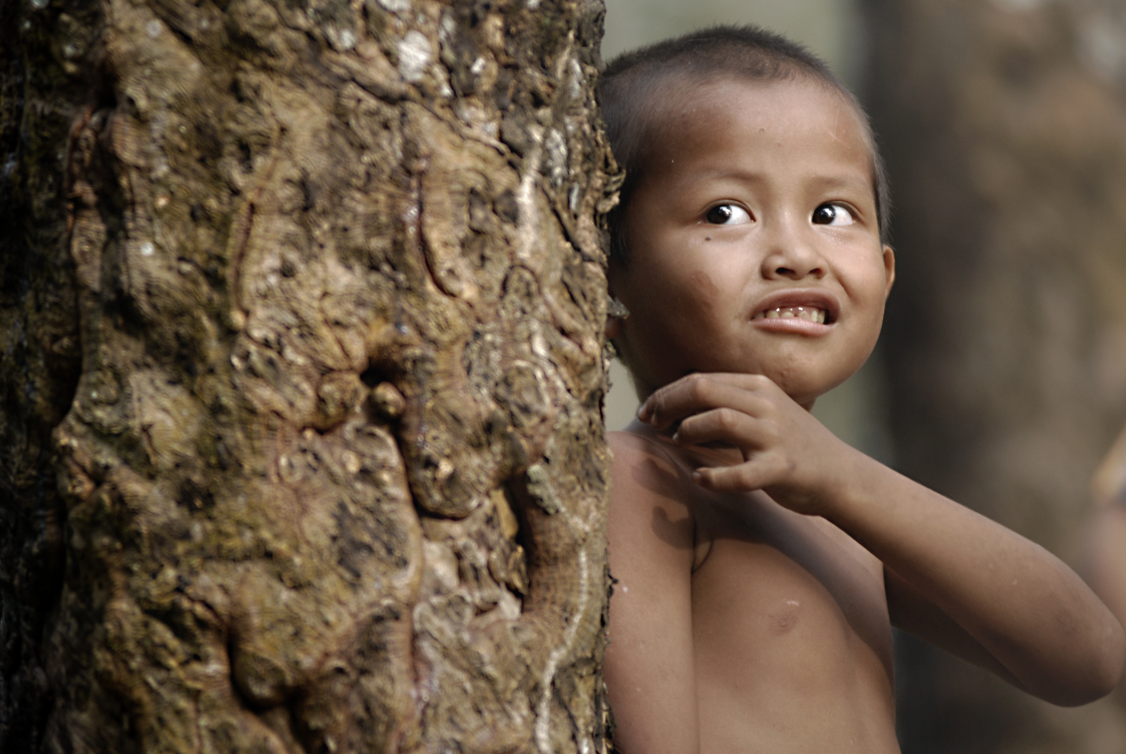 aboriginal people